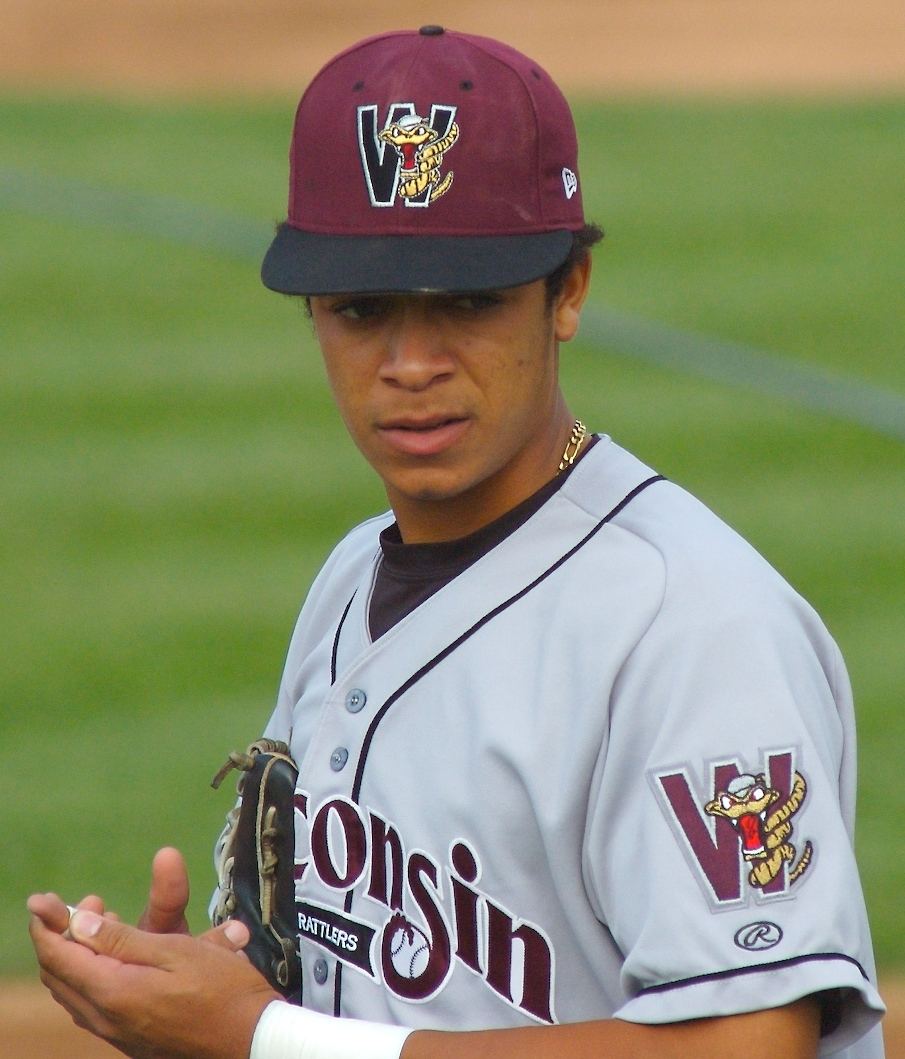 Juan Díaz playing for the Wisconsin Timber Rattlers in 2007.